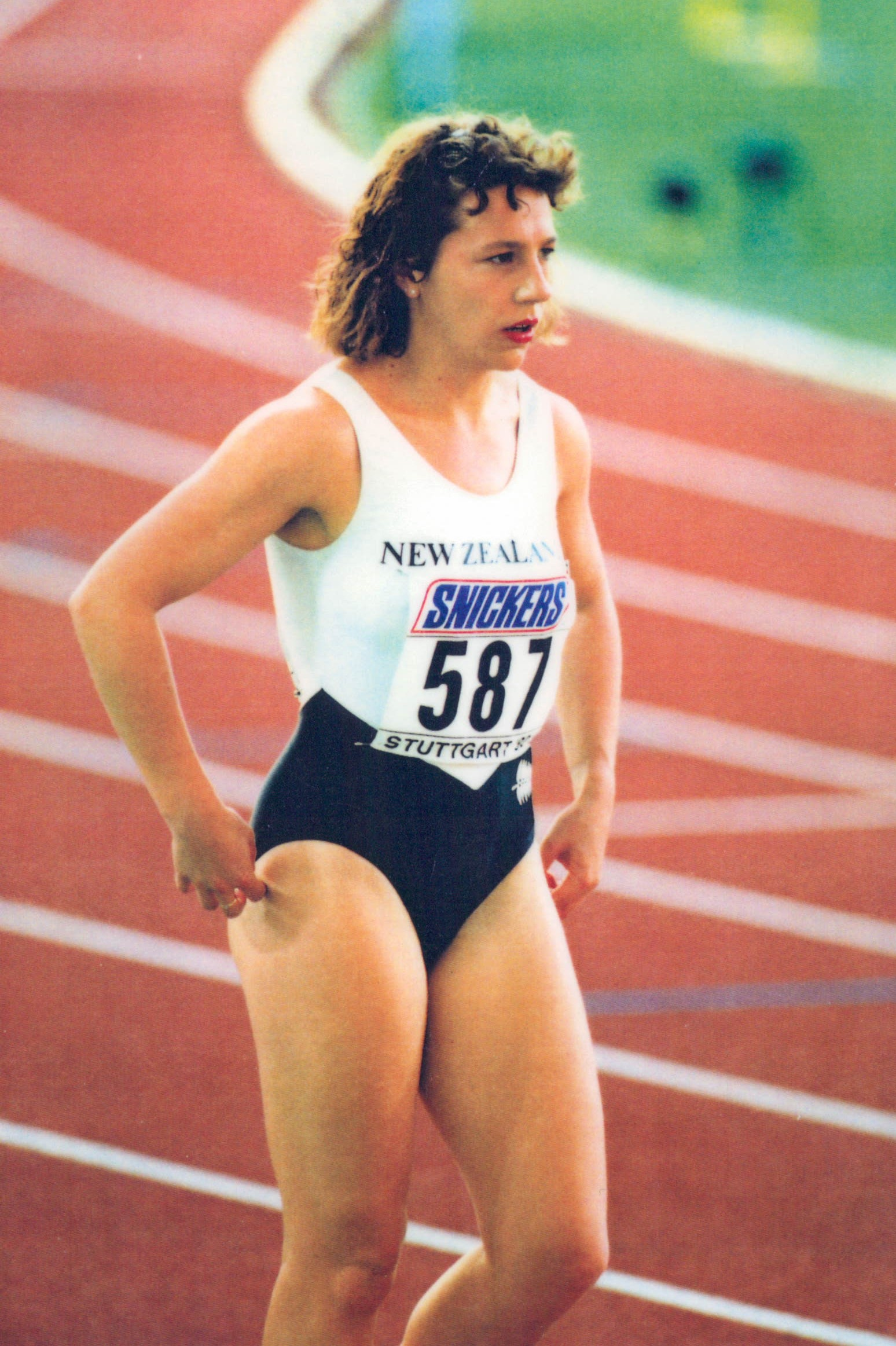 Athletics World Championships 1993 Stuttgart Germany 100m